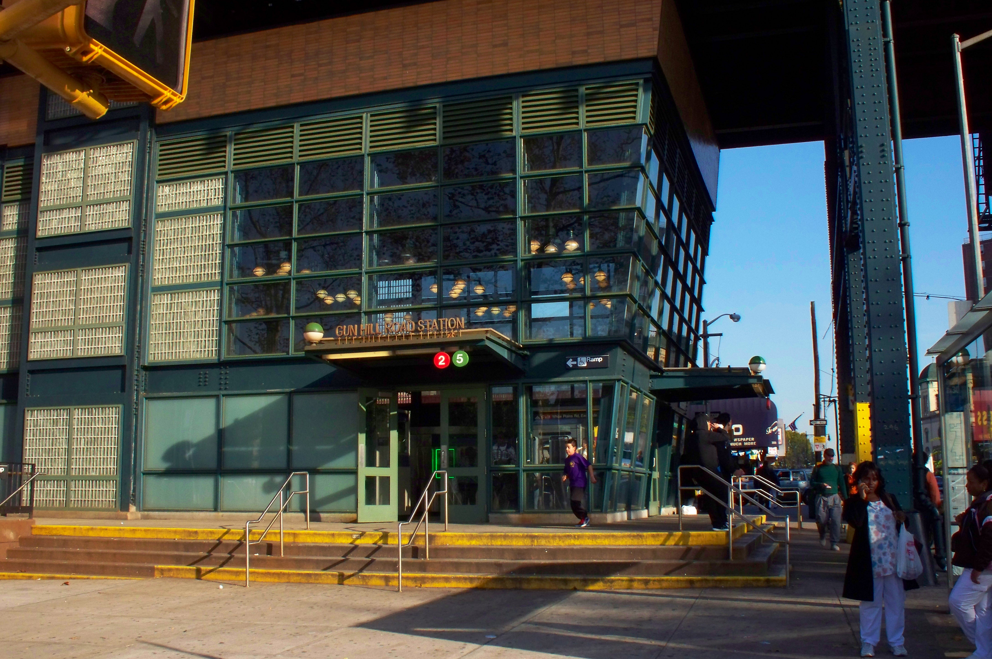 Entry to the Gun Hill Road Station the 2 and 5 Line.